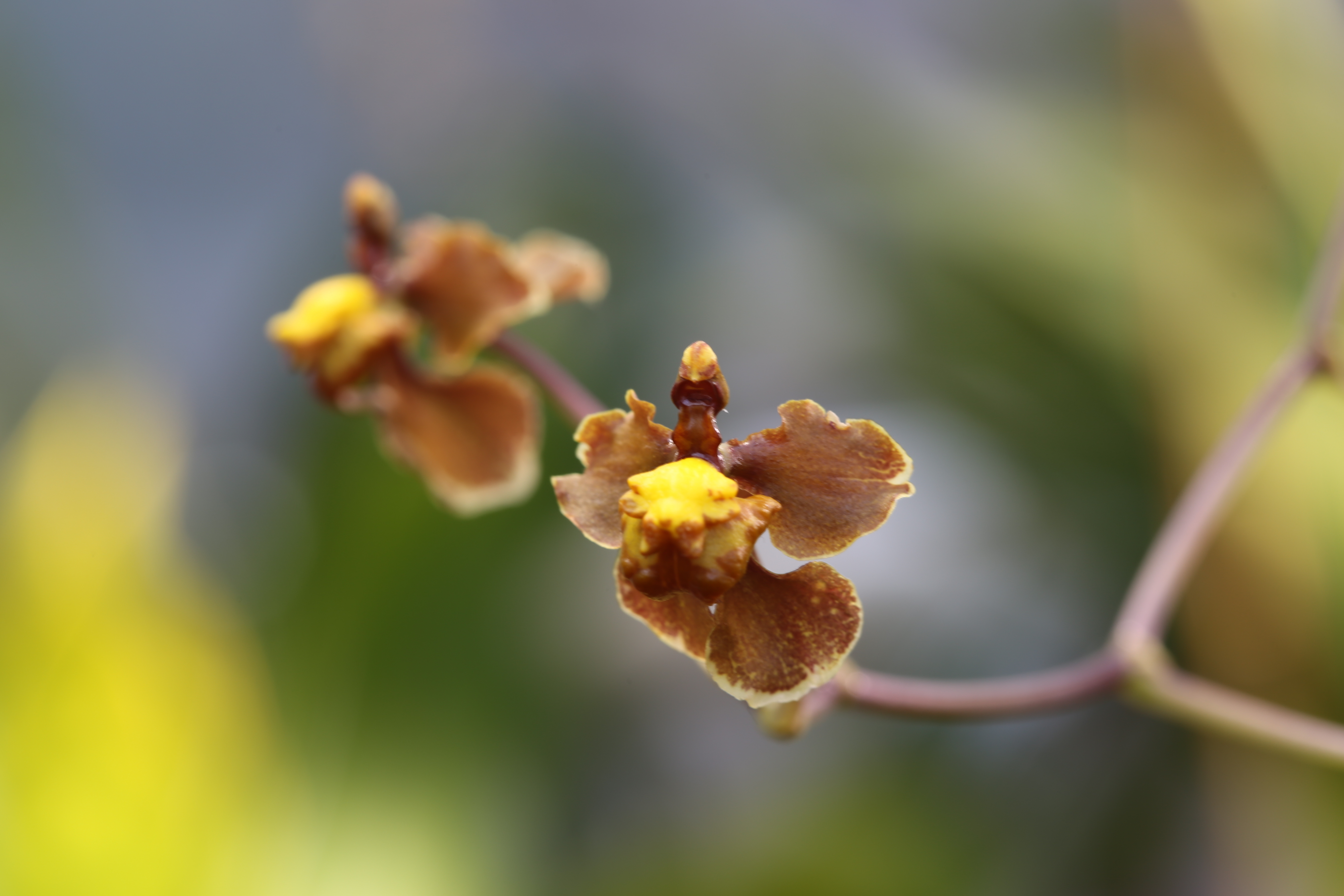 Oncidium cocciferum at Gothenburg botanical garden in 2015. Plant id: 1977-V2589 p W -- Neuendorf